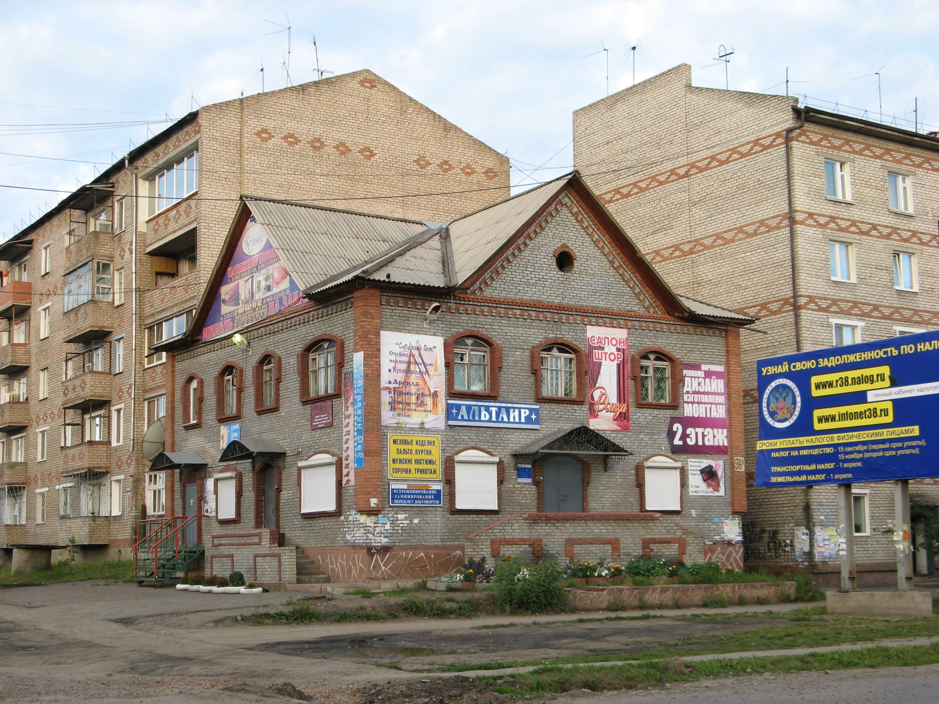 houses in the North part of Tayshet, Irkutsk region, Russia